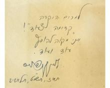 Levin Kipnis 1959 Dedication on the book Shai – tales, verses, poems, games, riddles, 19. Kadima Tzeod, Aleph-Beth rhymes and word-riddles for first grade children For Dear Miriam; Kadima Tzeod! I hope to add more and more" (Tel-Aviv, 1959)